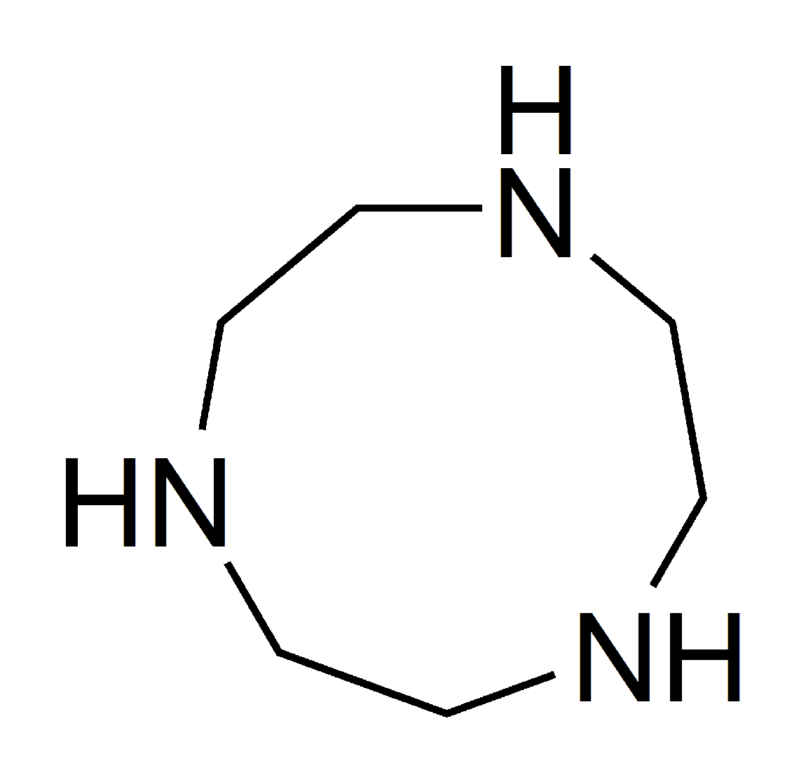 structure of 1,4,7-Triazacyclononane